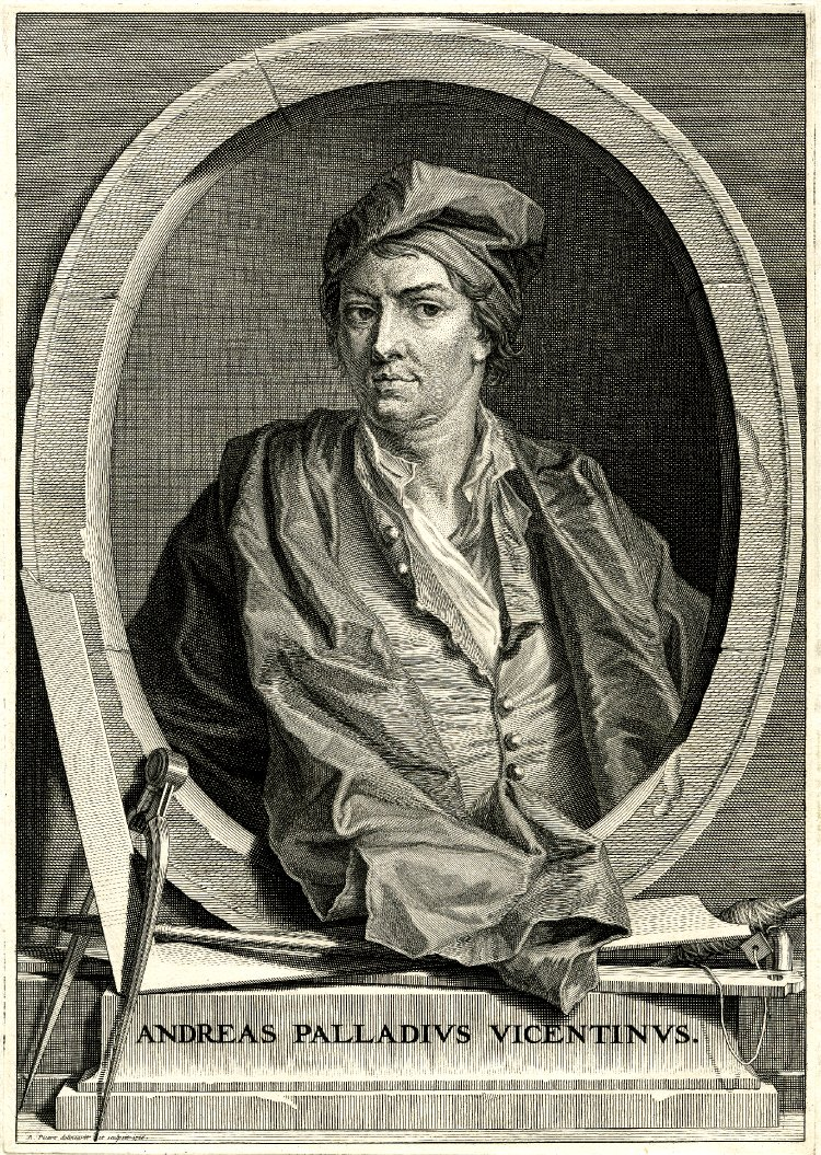 illustration to an unidentified edition of 'Architecture de Palladio,' revised by Giacomo Leoni and translated by Nicholas du Bois. Etching and engraving by the French printmaker Bernard Picart. Courtesy of the British Museum, London.